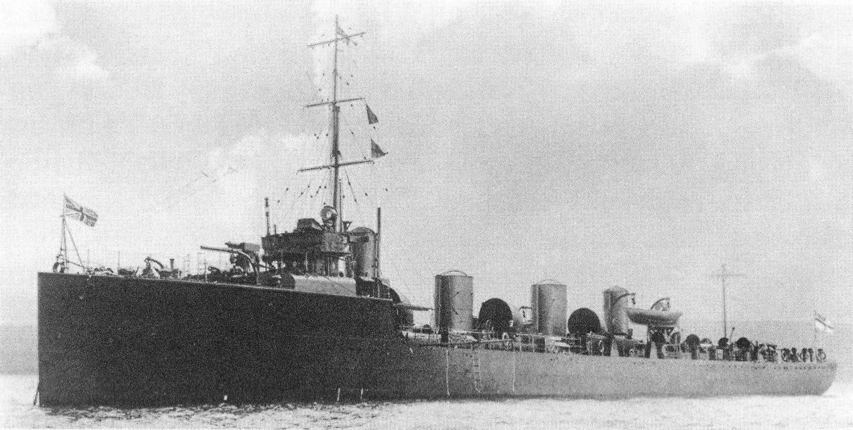 HMS Zulu (1909) sunk by SM UC-1 through Mines on October 27th, 1916